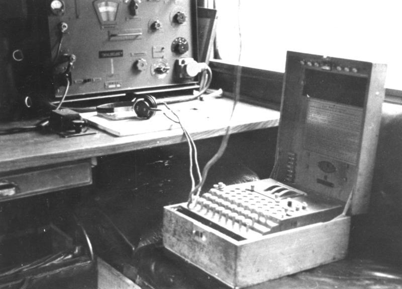 Equipment [radio and Enigma machine] in radio car of the 7th Panzer Div. staff